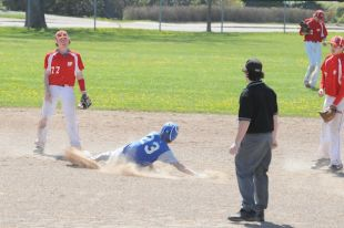 to